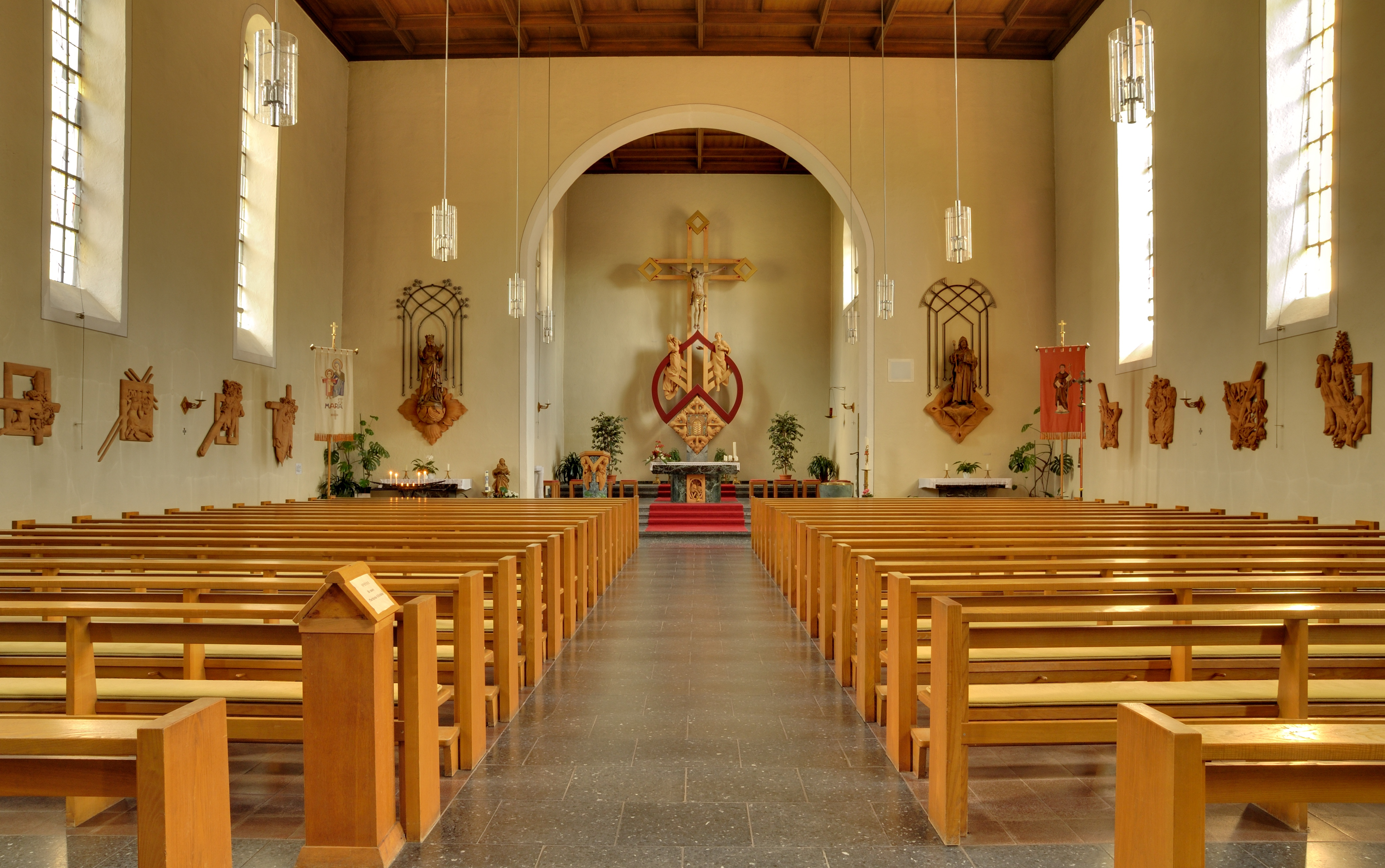 Zell im Wiesental: Saint Fridolin